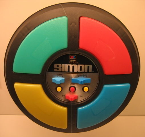 The original Simon game as seen at The Henry Ford, Dearborn, MI - 3/11/2007 Digital photo taken by Hempdiddy (talk).